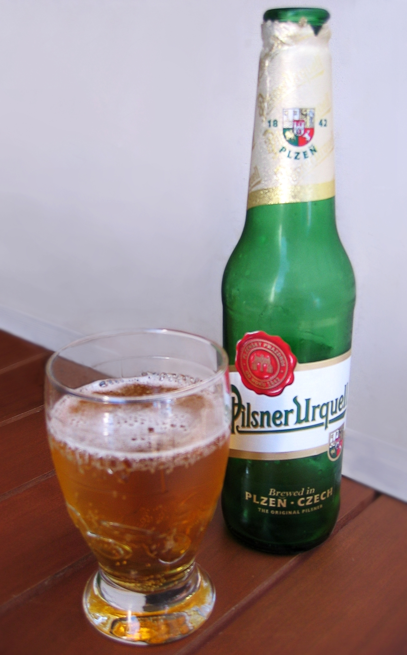 A bottle of Pilsner Urquell beside the glass of Pilsner Urquell beer, Prague, Czech Republic